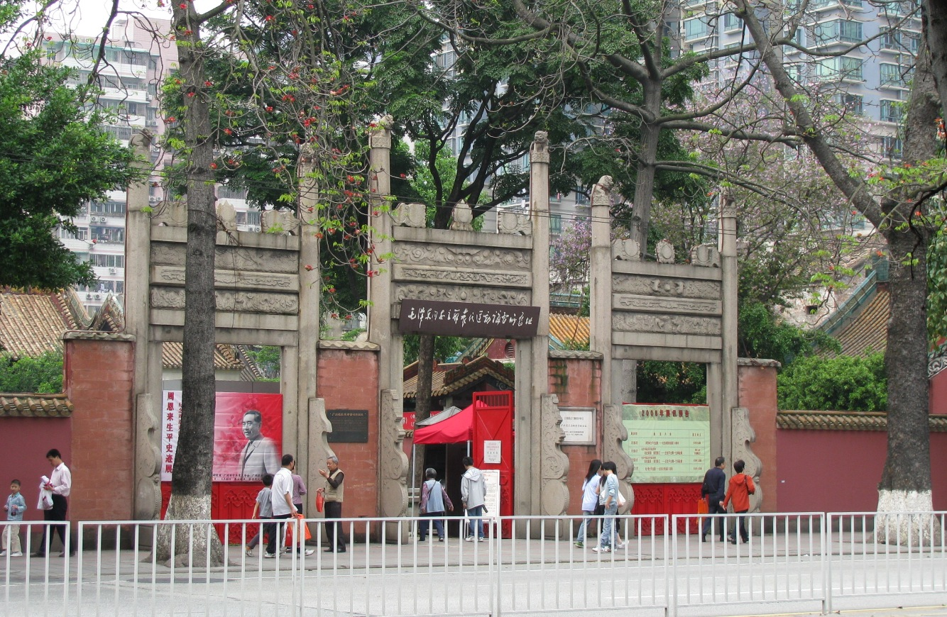 Peasant Movement Training Institute at Guangzhou, China.中国广州农讲所。